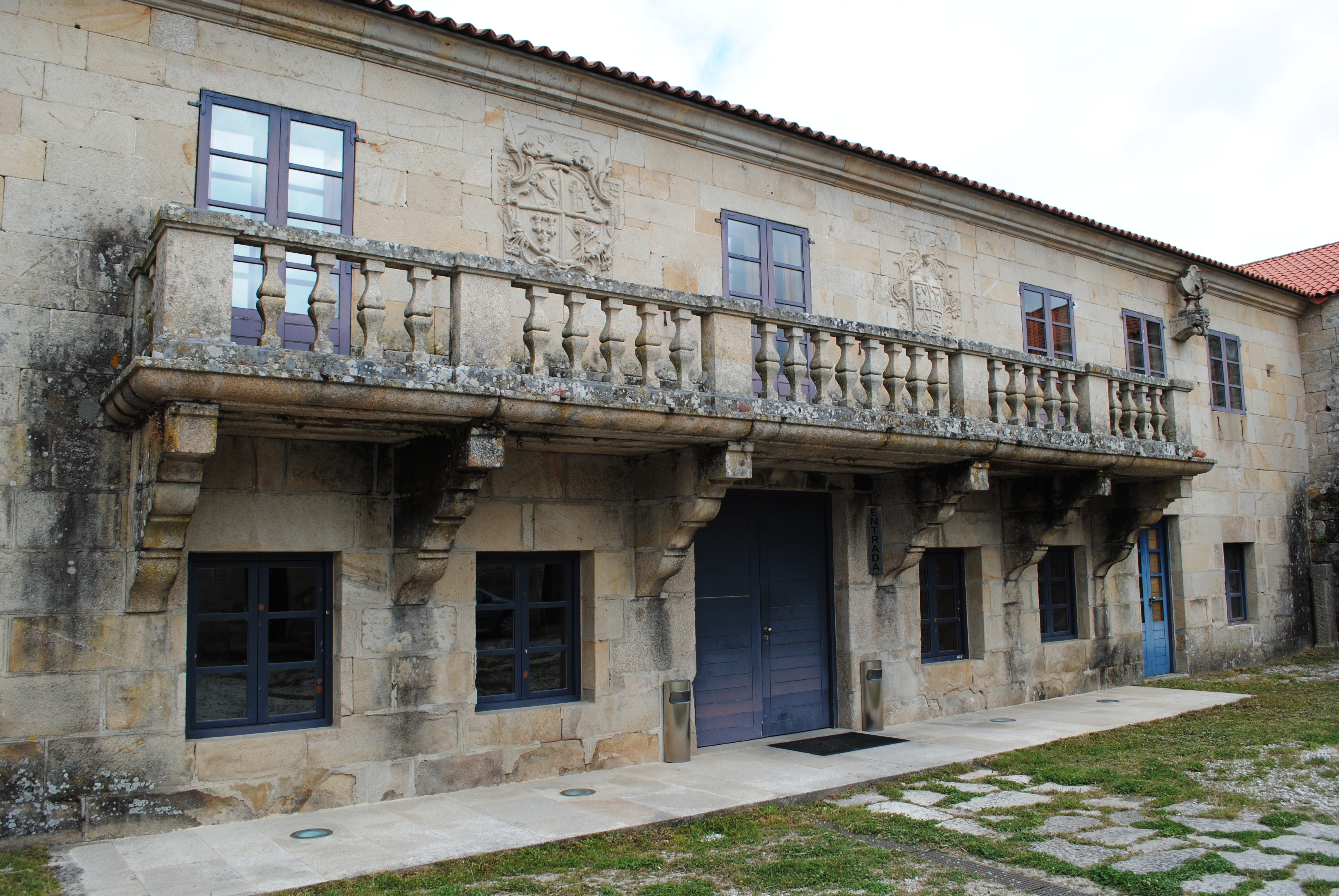 See title.